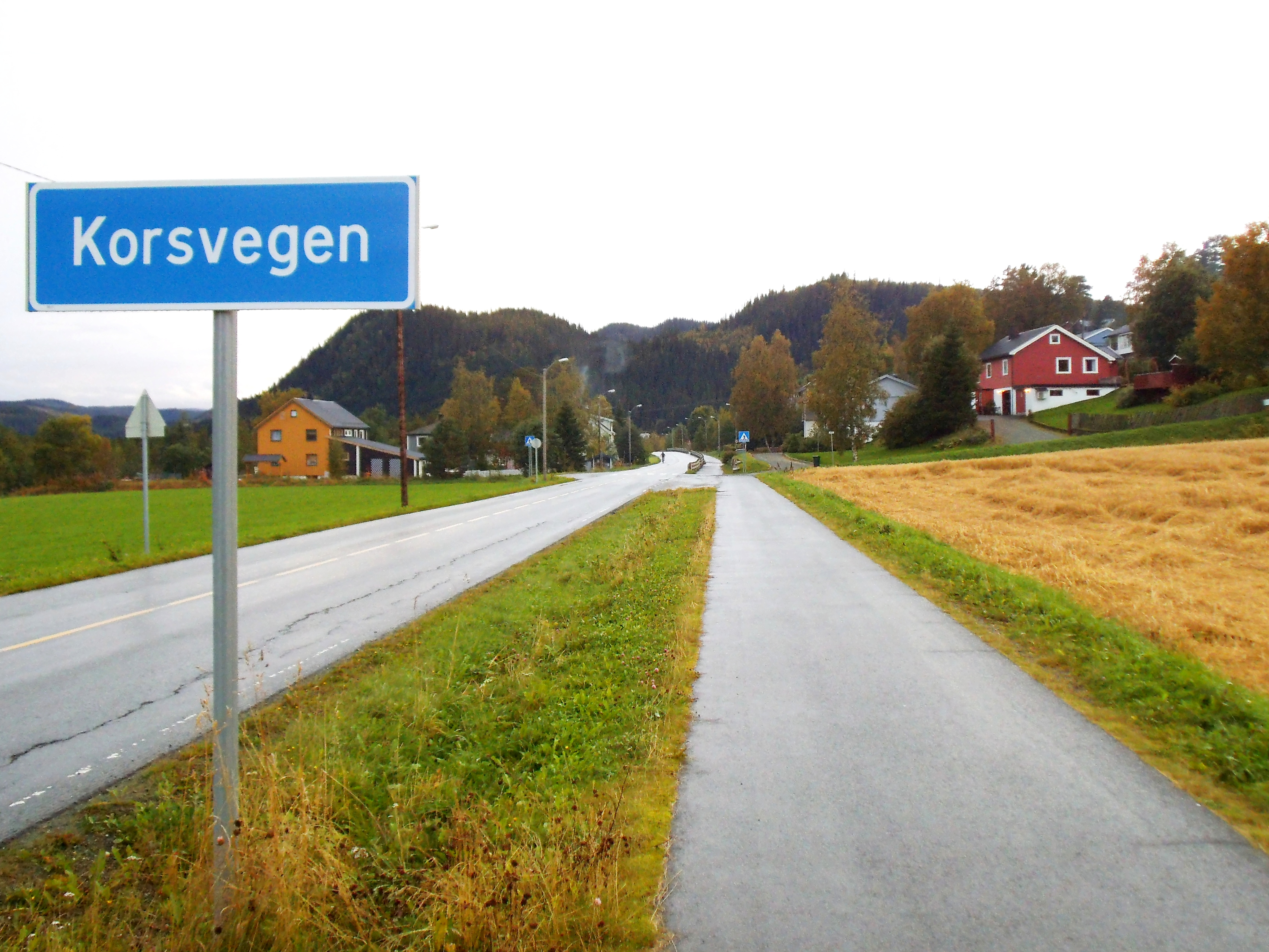 Korsvegen in september 2012. About 1 km before the centrum. The elementary school is right behind.